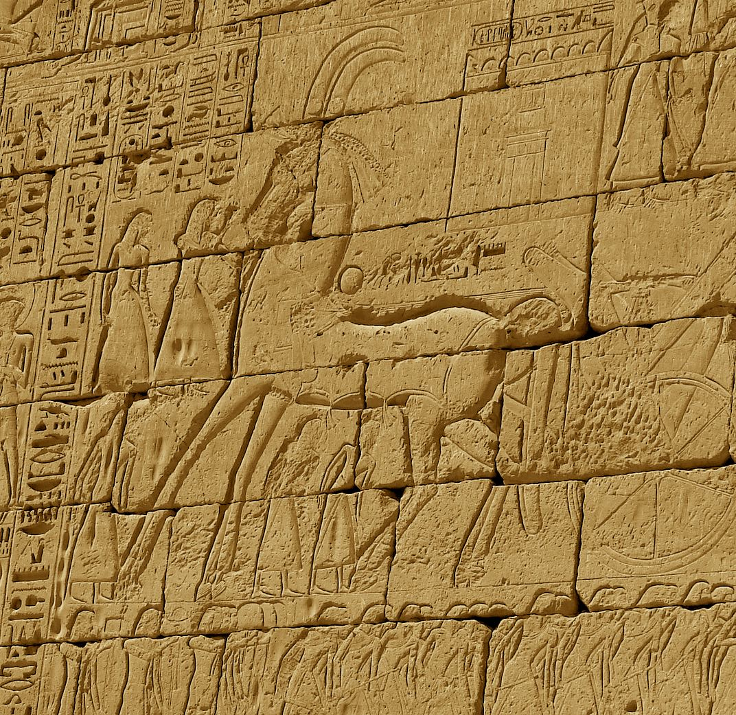 bas-relief sculpted horse on Medinat-Abu Temple